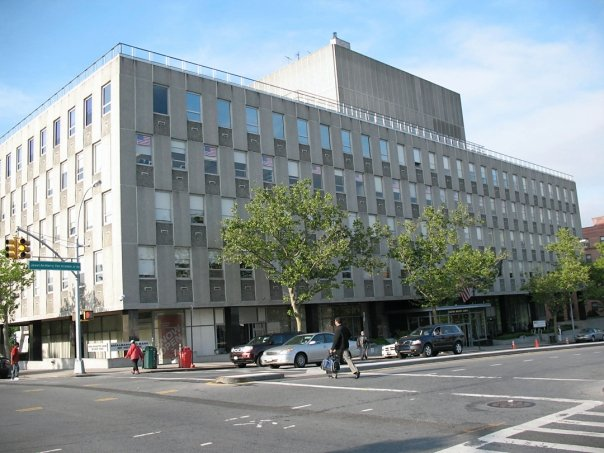 Local 3- International Brotherhood of Electrical Workers (IBEW), Union Building, Flushing, NY